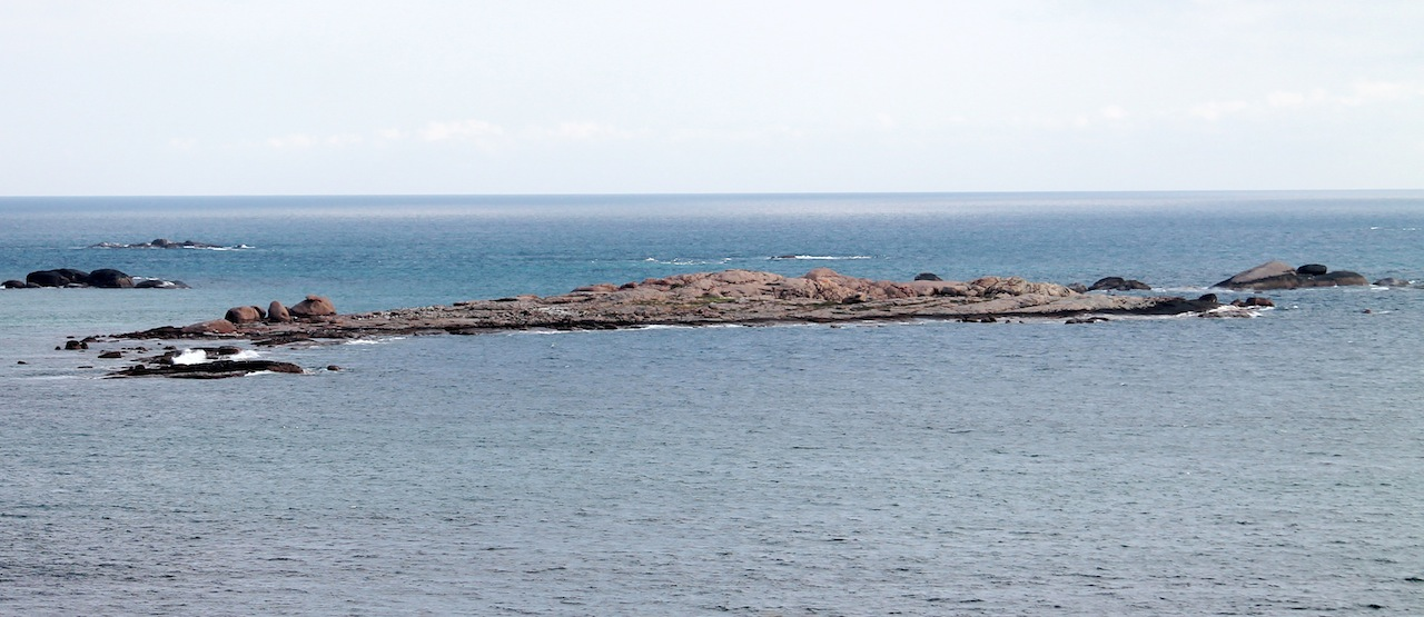 Seal Island, Saint Alouarn islands, Western Australia - taken from Point Matthew lookout 50 metres above sea level (+/- 4 metres from high water mark) low wind, low tide, low swell